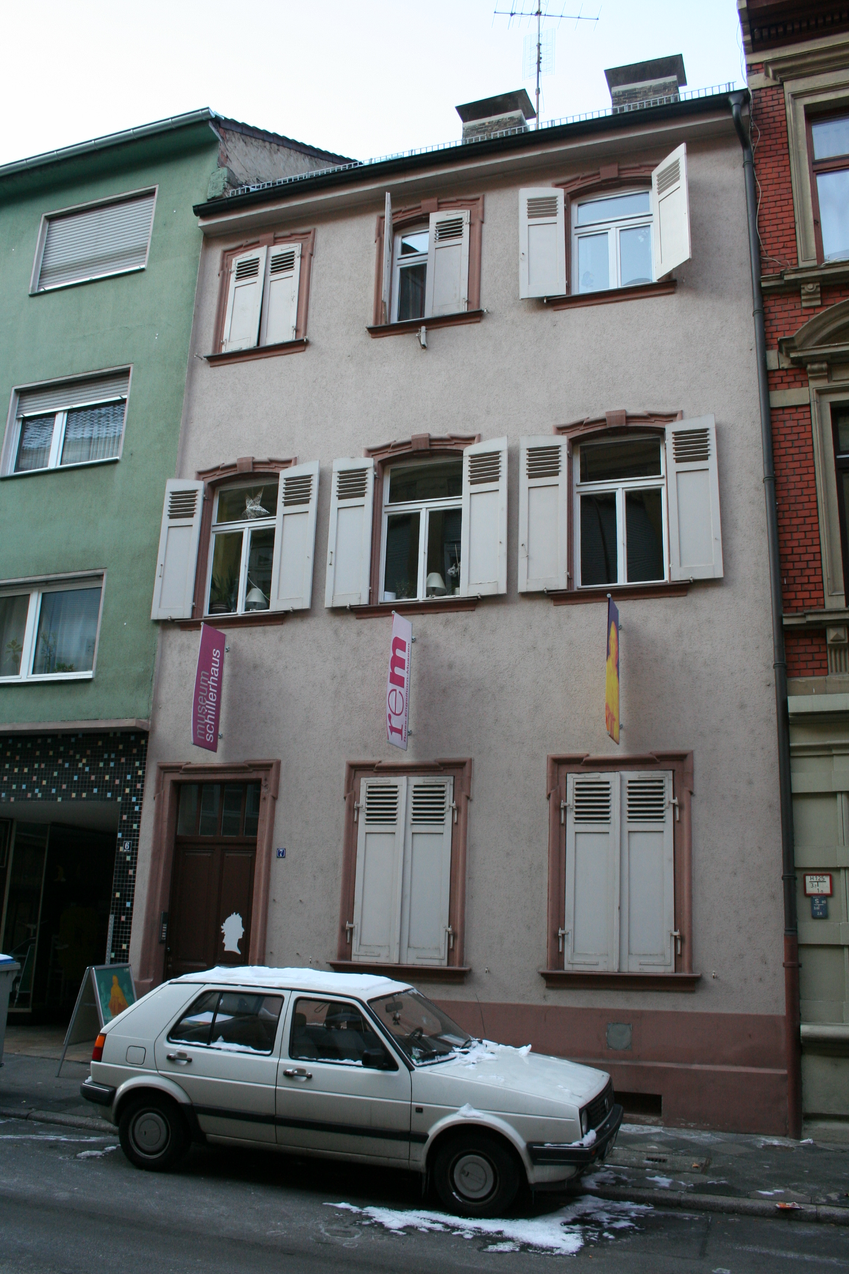 Part of the Reiss-Engelhorn-Museum, the Museum Schillerhaus in Mannheim, Germany